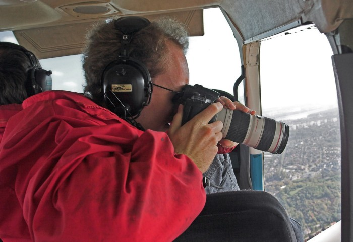 Daniel Somogyi-Tóth in work